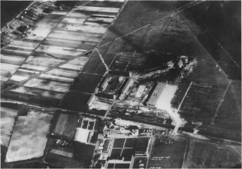 View from Celle Air Base into easterly direction, nowadays town district Heese